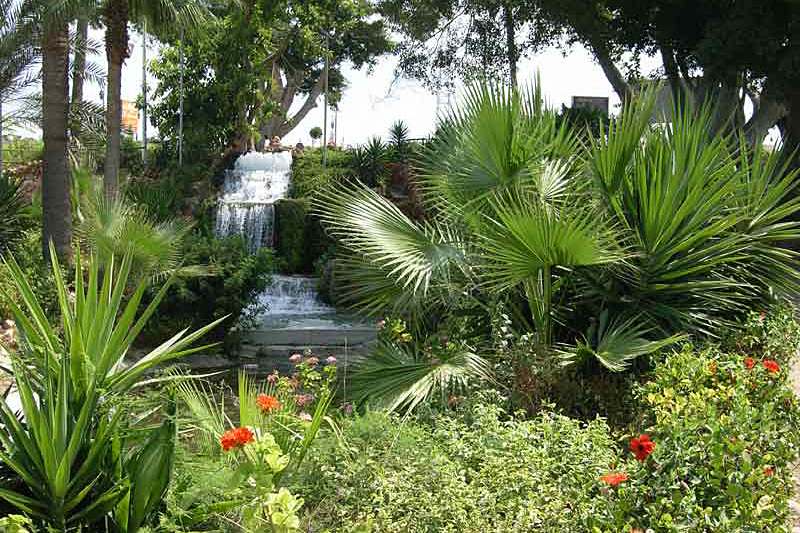 Schalalat gardens, Alexandria, Egypt